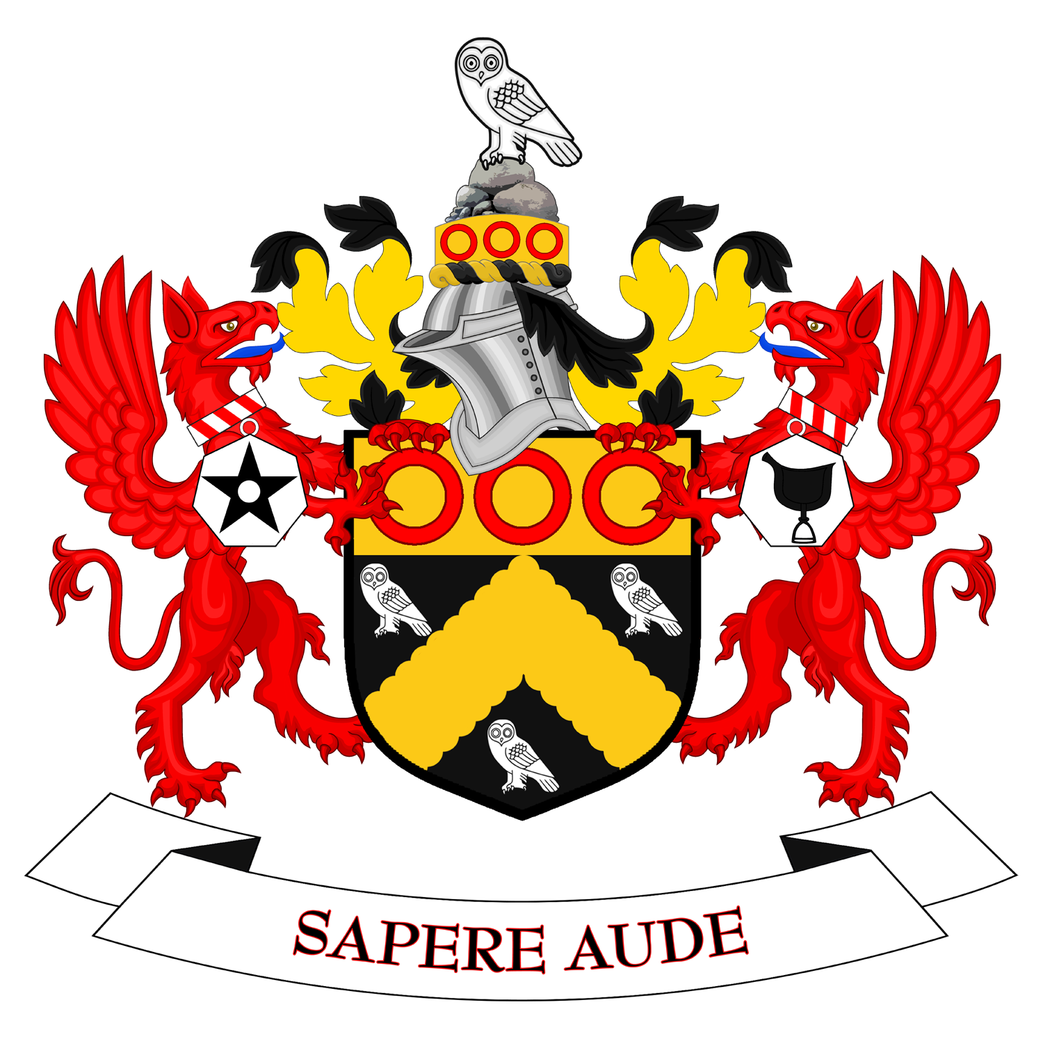 The Coat of arms of Oldham Metropolitan Borough Council, the local government authority for the Metropolitan Borough of Oldham, in Greater Manchester, England. The blazon is:ARMS: Sable a Chevron invected Or between three Owls Argent on a Chief engrailed Or as many Annulets Gules.CREST: On a Wreath of the Colours issuant from a Circlet Or charged with six Annulets Gules a Rock proper thereon an Owl Argent.SUPPORTERS: On either side a Griffin Gules each gorged with a Collar engrailed Argent charged with six Bendlets Gules pendant therefrom a Heptagon Argent that on the dexter charged with a pierced Mullet that on the sinister with a Saddle both Sable.